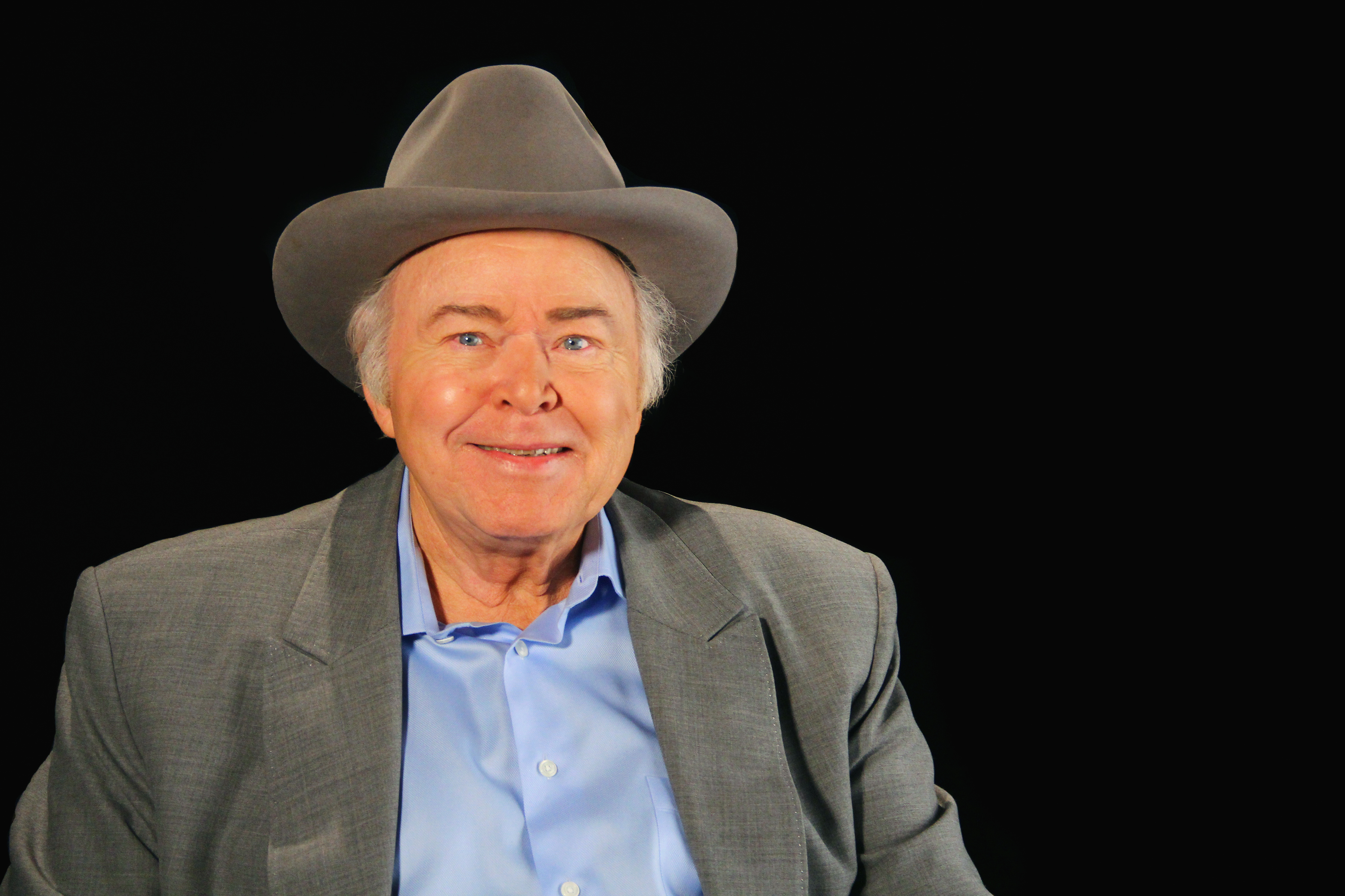 Roy Clark on the set of A Conversation With (OETA)